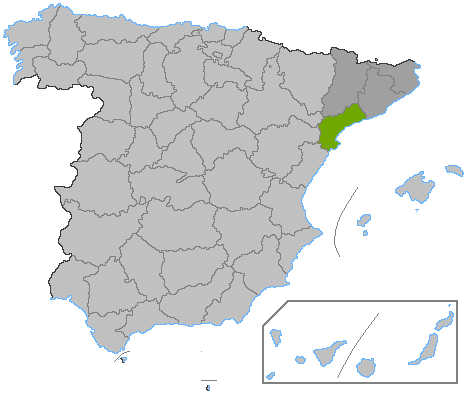 Location of Tarragona province